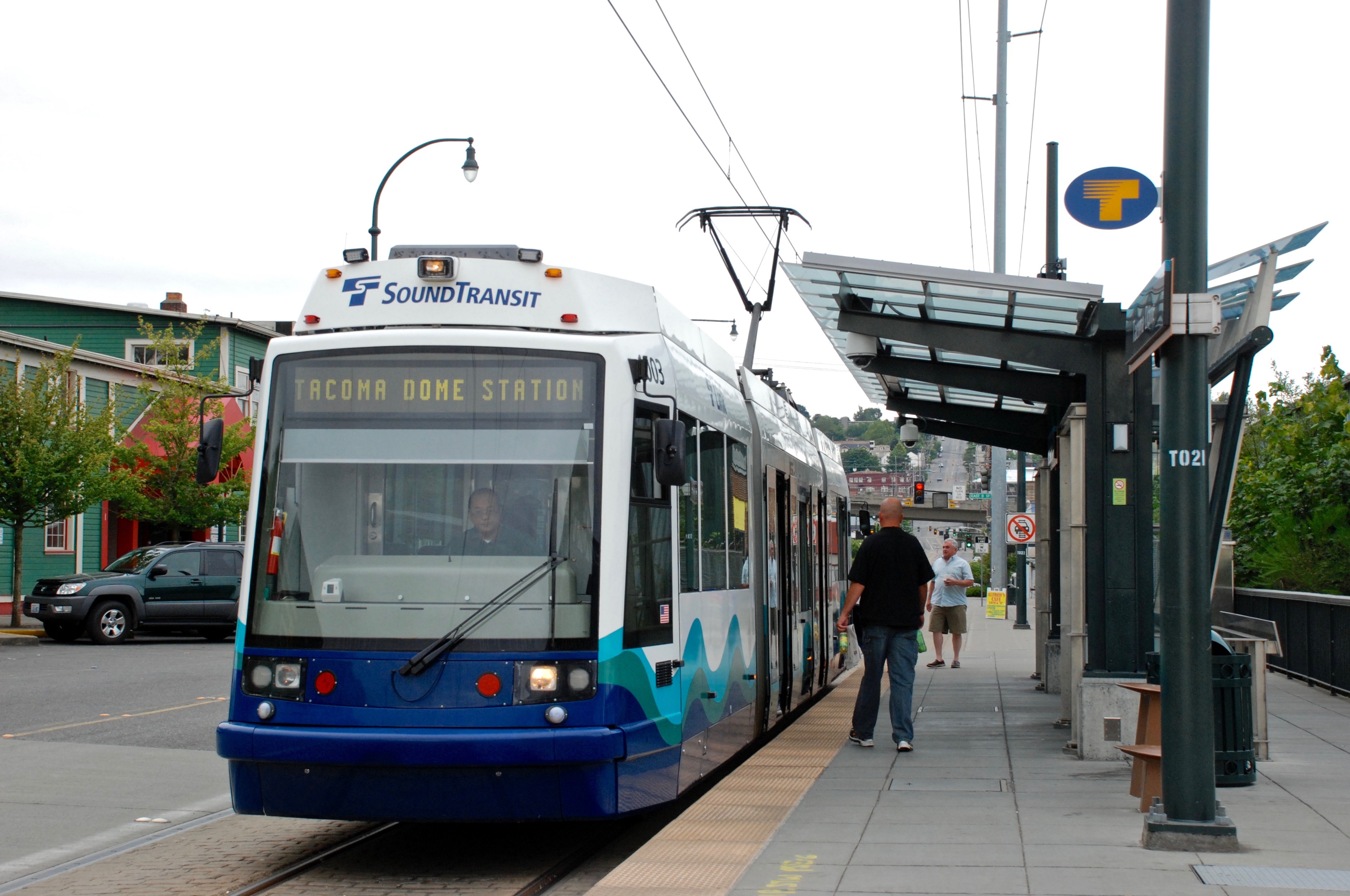 Sound Transit Tacoma Link car 1003, a 2002 Škoda 10T, having just arrived at the line's Tacoma Dome station, with its doors in the process of opening. It is at the end of a southbound trip.